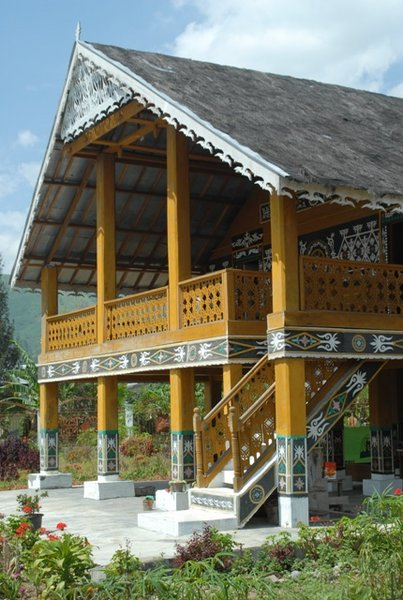 Gayo traditional house called Pitu Ruang ("seven rooms"), Aceh province, Sumatra, Indonesia